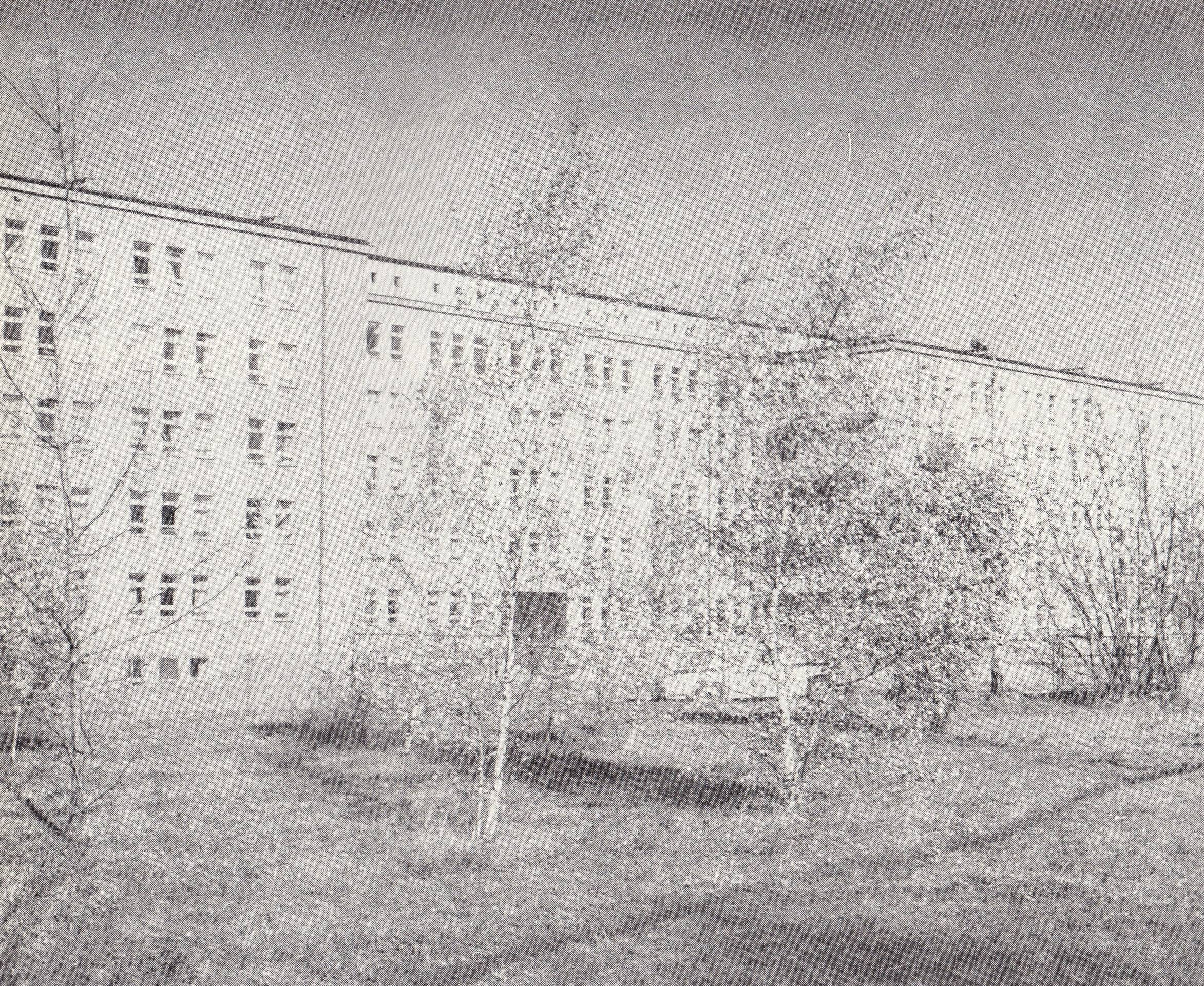 Hospital of Adolf Tochterman in Radom